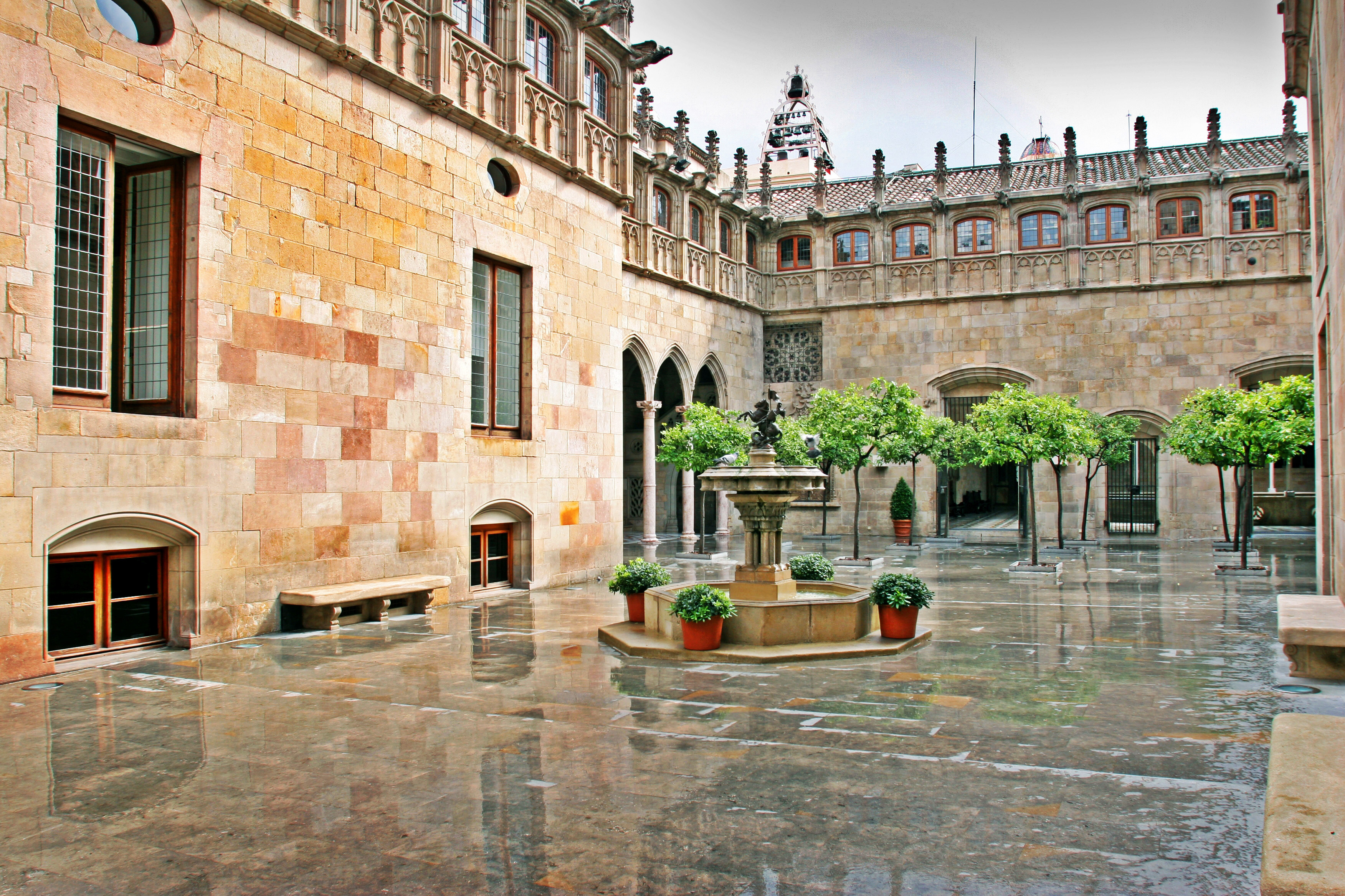 The Pati dels Tarongers ("Orange Tree Courtyard") is located at the Palace of the Generalitat, the seat of the Catalan Government in Barcelona